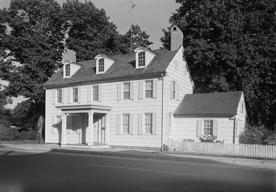 The Judges (House), 104 West Market Street, Georgetown (Sussex County, Delaware) cropped This file comes from the Historic American Buildings Survey (HABS), Historic American Engineering Record (HAER) or Historic American Landscapes Survey (HALS). These are programs of the National Park Service established for the purpose of documenting historic places. Records consist of measured drawings, archival photographs, and written reports. When reusing please credit: Library of Congress, Prints & Photographs Division, DEL,3-GEOTO,1-54 This tag does not indicate the copyright status of the attached work. A normal copyright tag is still required. See Commons:Licensing for more information. English | +/− This work is in the public domain in the United States because it is a work prepared by an officer or employee of the United States Government as part of that person’s official duties under the terms of Title 17, Chapter 1, Section 105 of the US Code. See Copyright. Note: This only applies to original works of the Federal Government and not to the work of any individual U.S. state, territory, commonwealth, county, municipality, or any other subdivision. This template also does not apply to postage stamp designs published by the United States Postal Service since 1978. (See § 313.6(C)(1) of Compendium of U.S. Copyright Office Practices). It also does not apply to certain US coins; see The US Mint Terms of Use. This file has been identified as being free of known restrictions under copyright law, including all related and neighboring rights. Object location38° 41′ 21″ N, 75° 23′ 17″ W